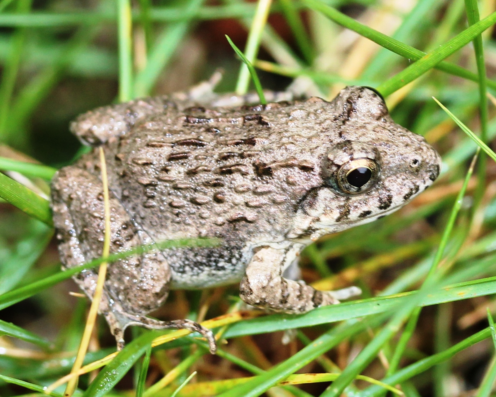 Glandirana rugosa (Japanese wrinkled frog) in Japan